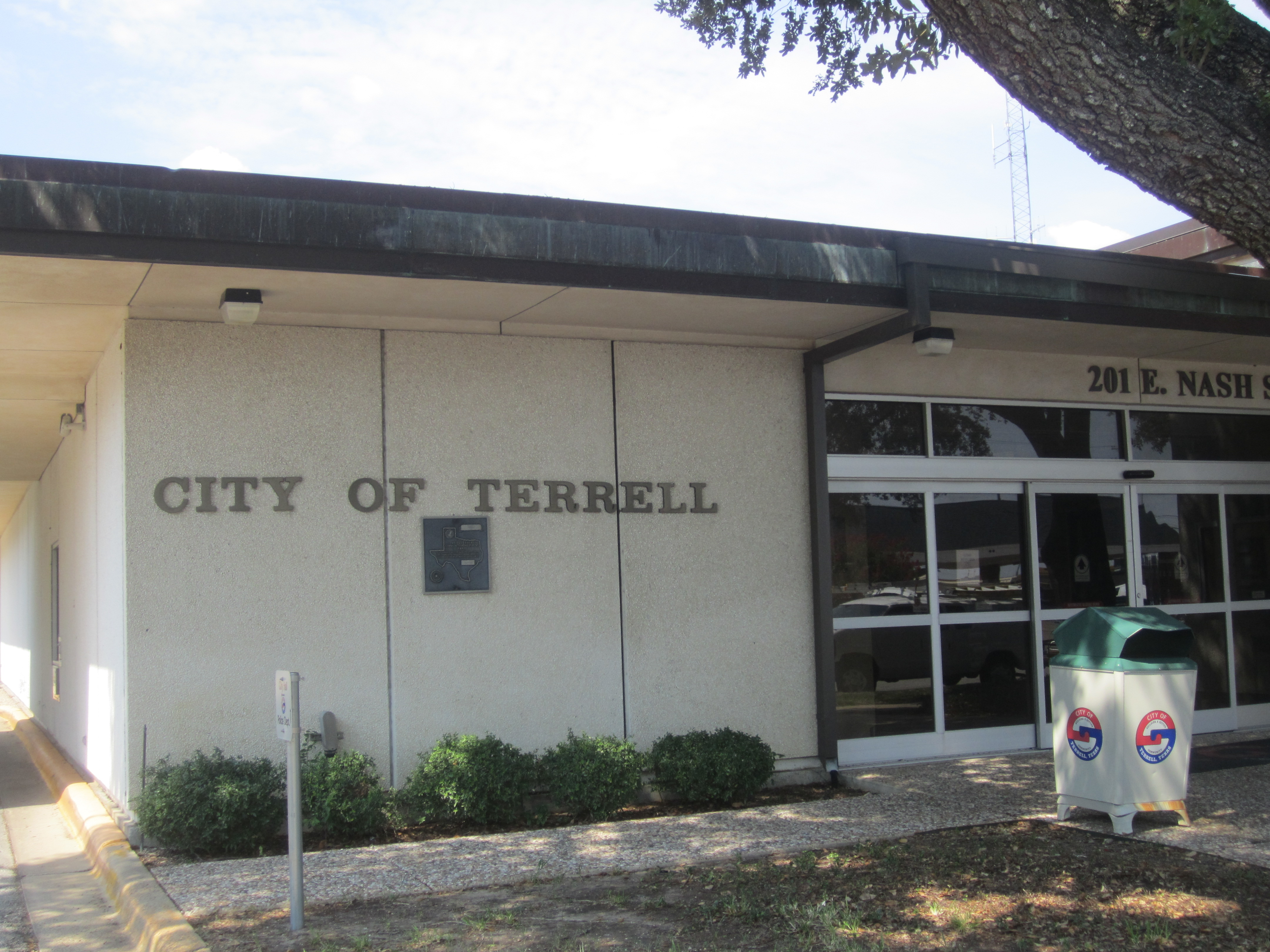 I took photo of City Hall in Terrell, TX, with Canon camera.